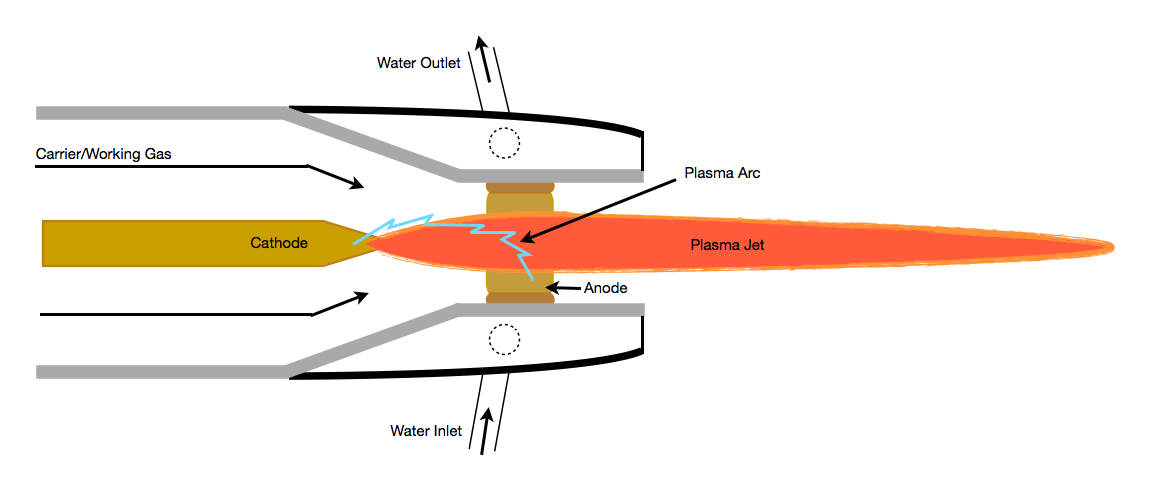 Cross-sectional representation of a non-transferred DC plasma torch. Showing the pointed cathode and annular anode. The inlets and outlets of the water-cooling system are labelled, note that the arch temperature can be up to 15 000°C. The plasma arc is drawn for illustration purposes only. Not to scale. Information and idea from: Gomez, E., Rani, D.A., Cheeseman, C.R., Deegan, D., Wise, M., Boccaccini, A.R. (2009) “Thermal plasma technology for the treatment of wastes: A critical review”. Journal of Hazardous Materials 161, pp. 614-626.